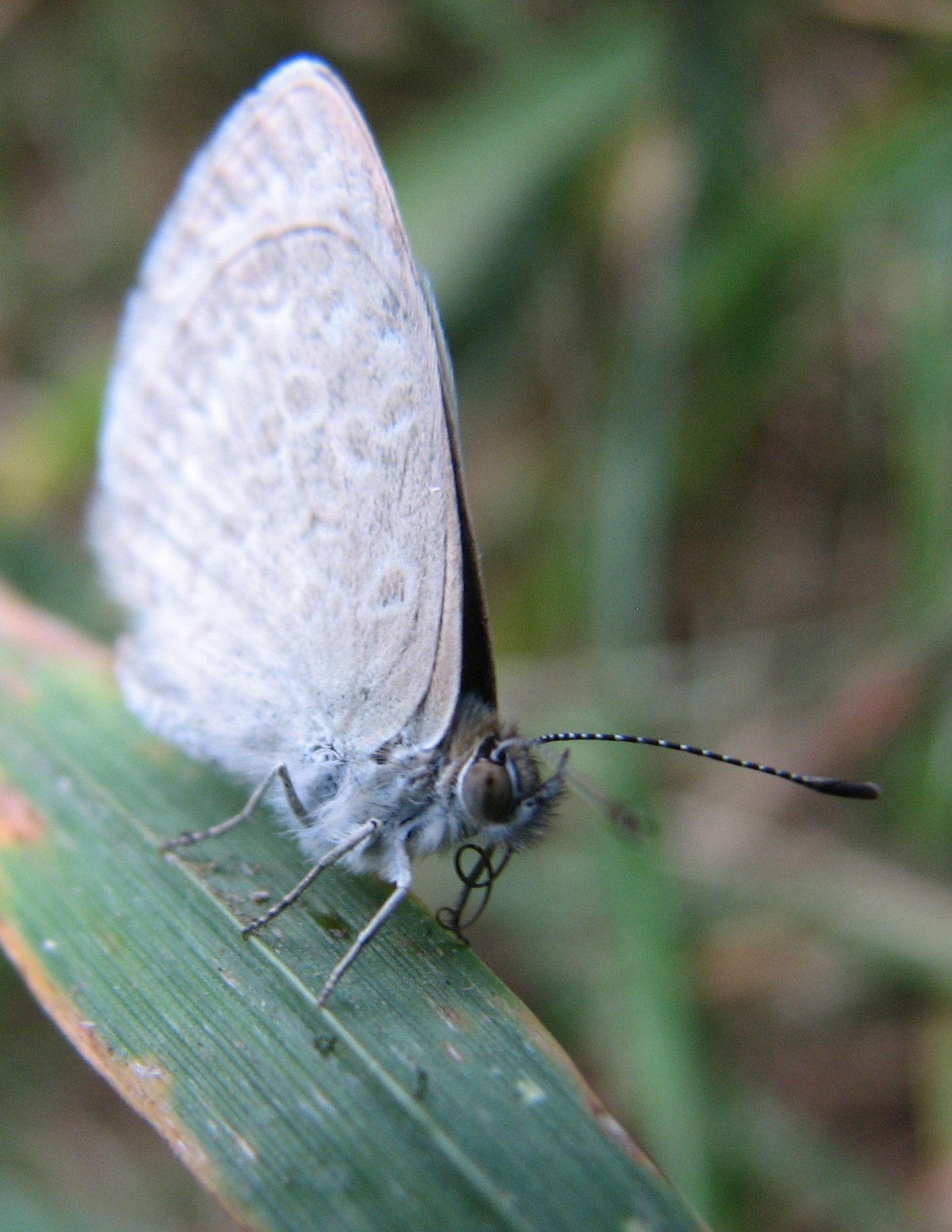 Zizina otis (Common Grass-blue). It is NOT Paralucia spinifera. Spotted on creek bank in Lithgow